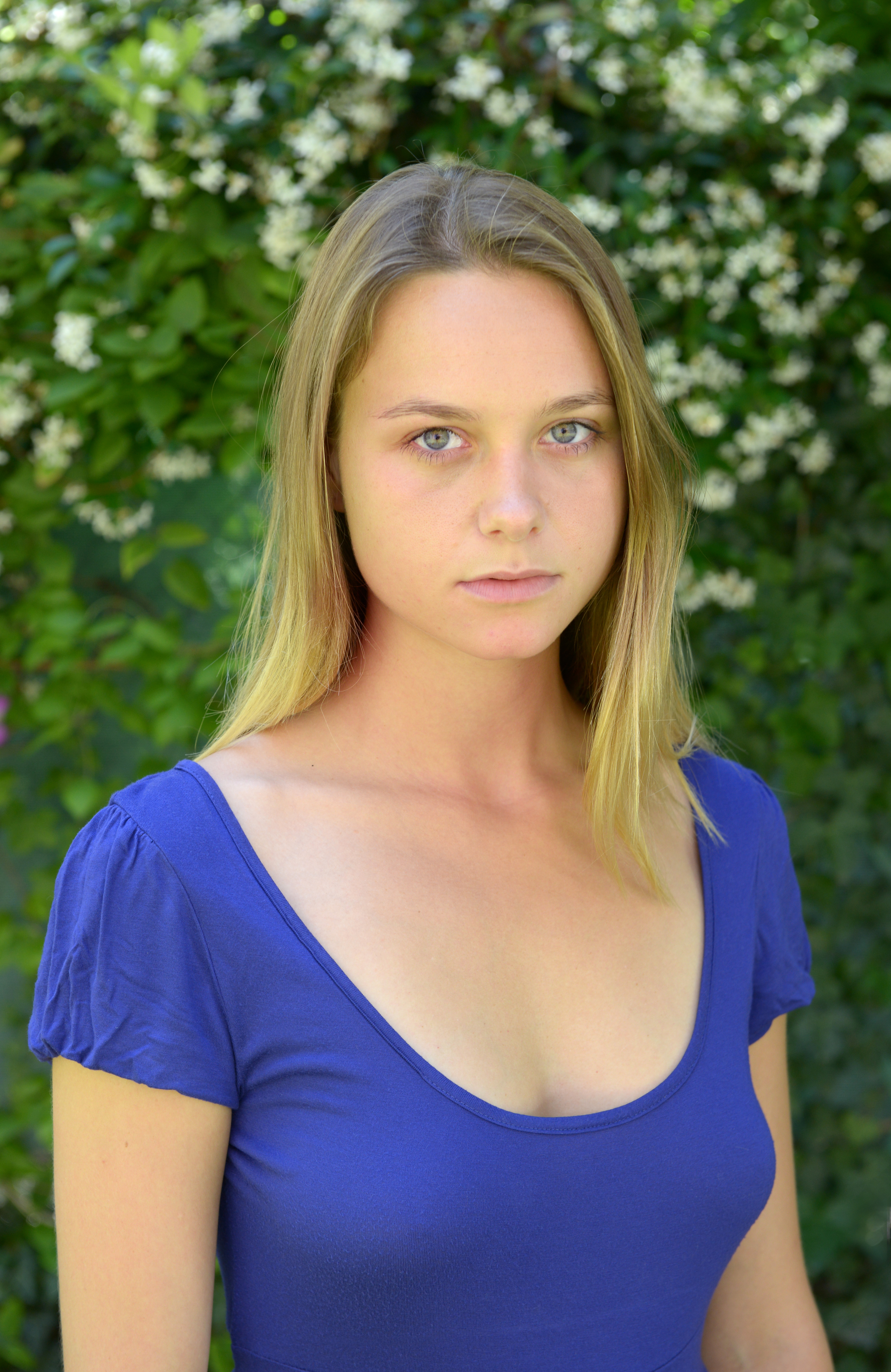 Actress Anna Unterberger at a private location in her hometown Bolzano.